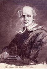 Drawing portrait of John Russell, 6th Duke of Bedford (1766-1839)